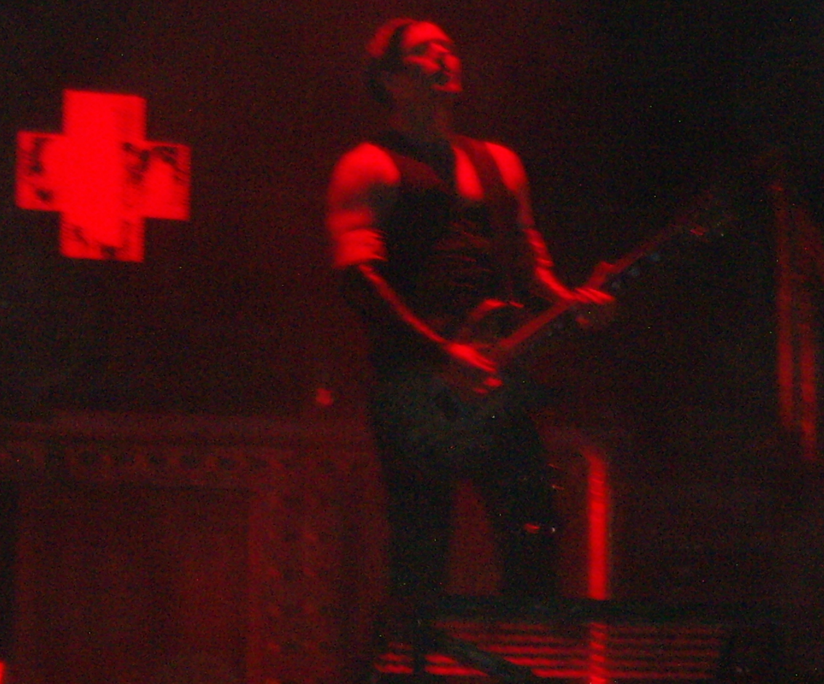 Richard Kruspe live in concert performing Frühling in Paris in Villafranca di Verona.